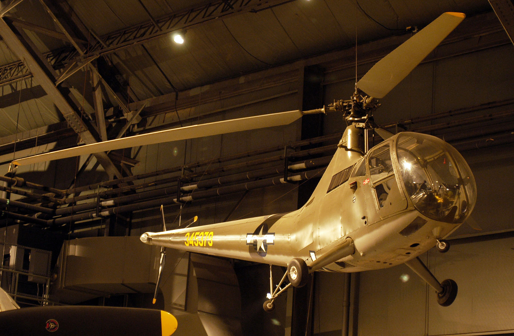 Sikorsky R-6A Hoverfly II helicopter